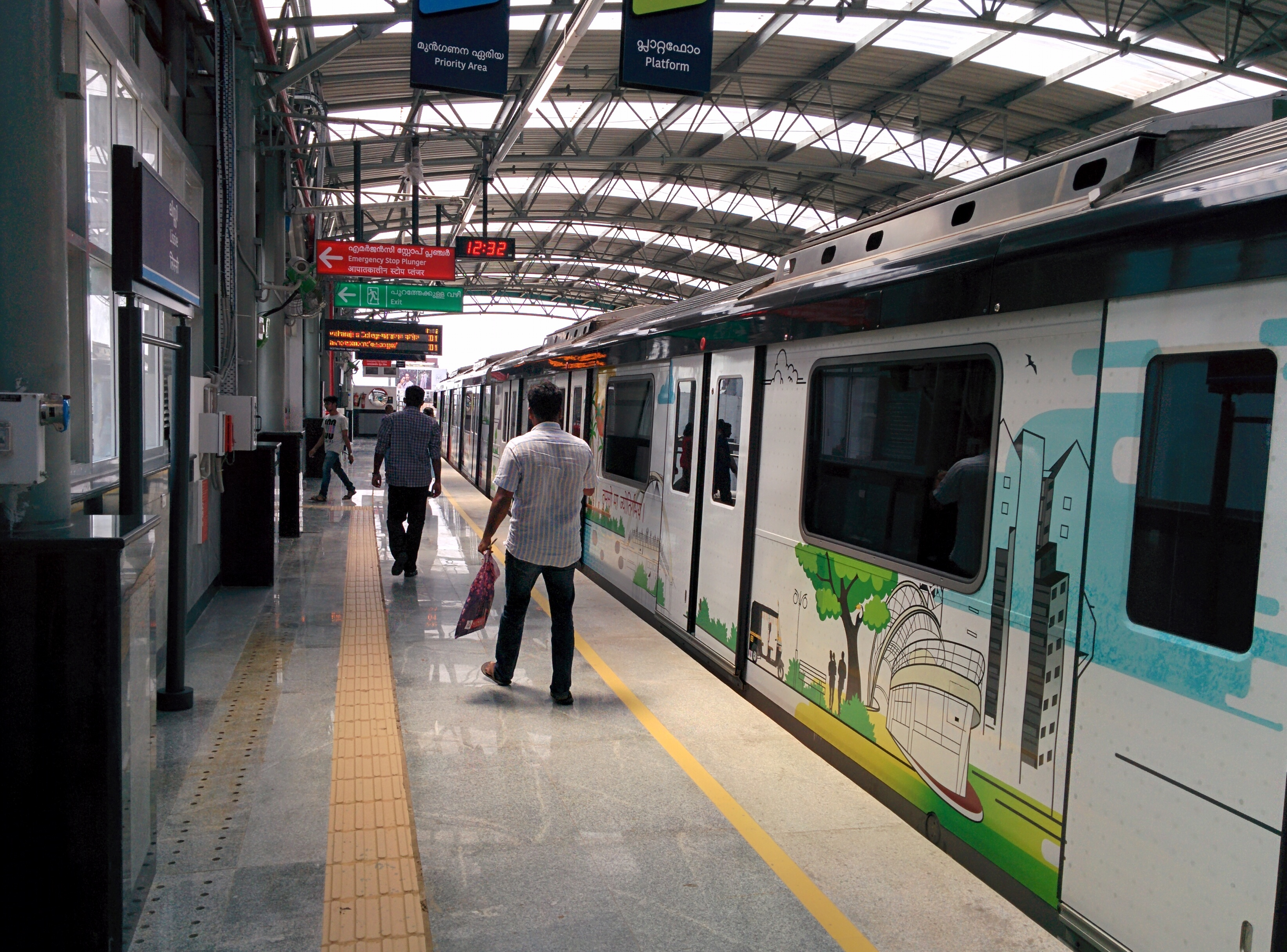 Train at Lissie station of Kochi Metro